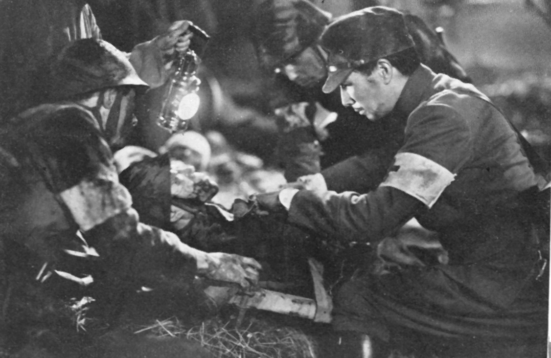 Battle scene from Bokujō monogatari (牧場物語; „Tale of a Pasture”) Takata Minoru as Dr. Tashiro on right.